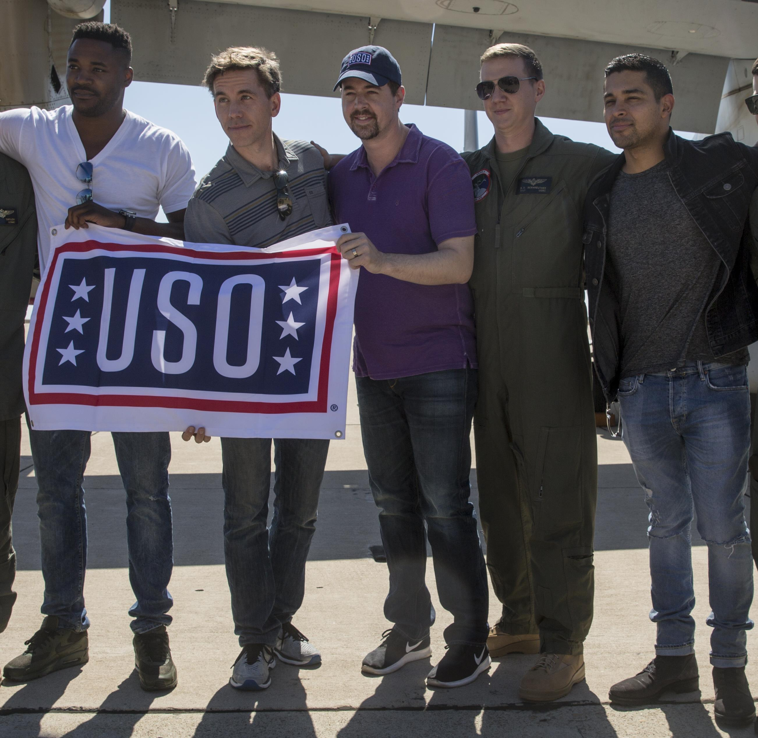 Oct 4, 2017 MCAS Miramar, Calif - Leading cast members of the CBS hit drama “NCIS: Naval Criminal Investigations,” take photos with Marines during a USO tour at Marine Corps Air Station Miramar, Calif., Sept. 30. Leading cast members from the hit CBS drama “NCIS: Naval Criminal Investigations,” Brian Dietzen, Duane Henry, Sean Murray and Wilmer Valderrama viewed three different aircraft platforms with 3rd Marine Aircraft Wing and attended a luncheon with Marines prior to a question-and-answer session and show screening. (U.S. Marine Corps photo by Sgt. Lillian Stephens/Released)